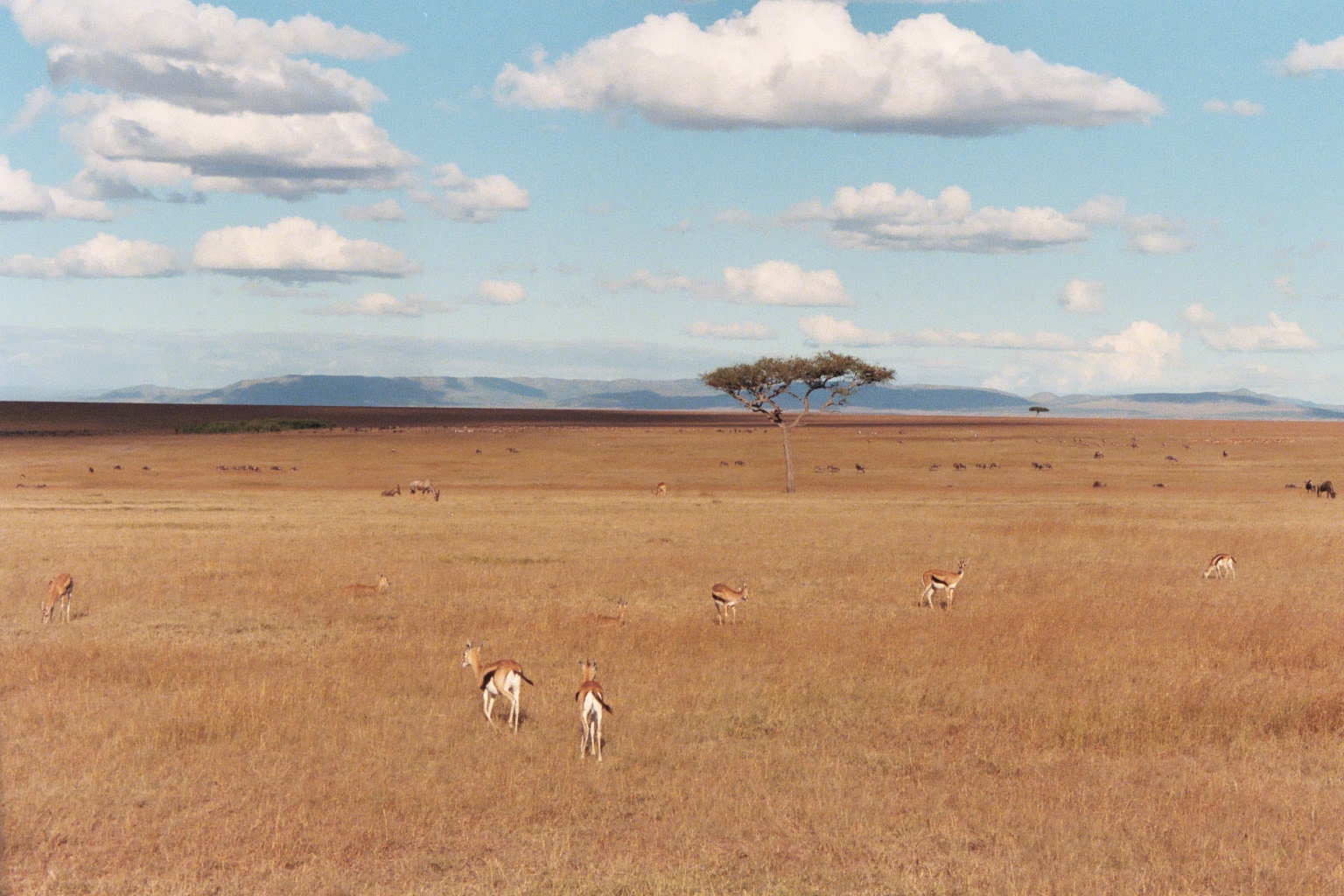 Herds on plains of Masai Mara, Kenya